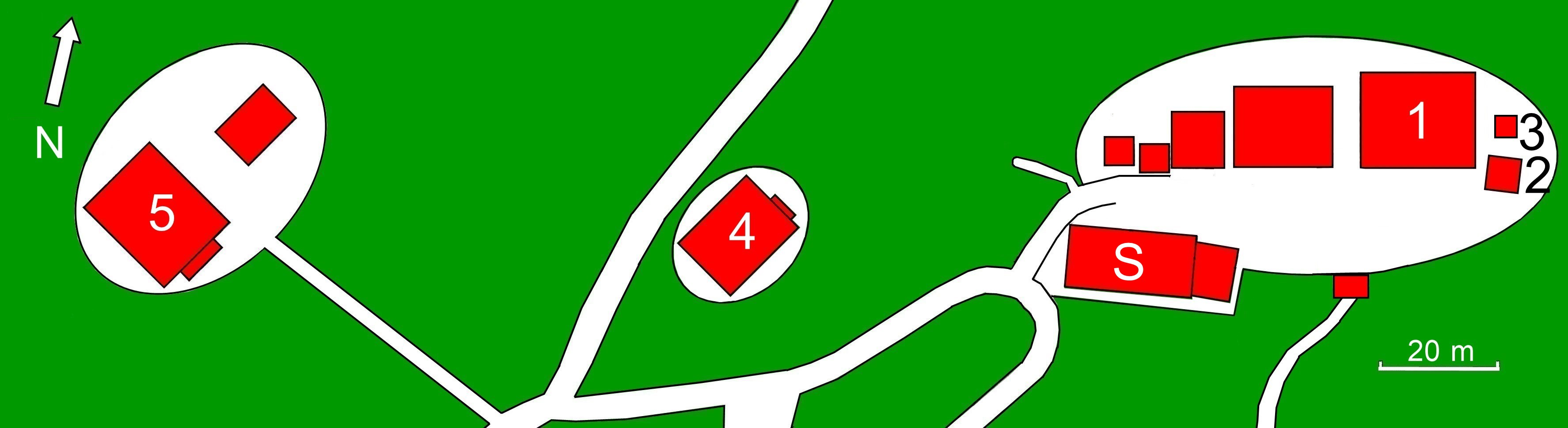 Layout of Jikô-ji temple within Saitama prefecture